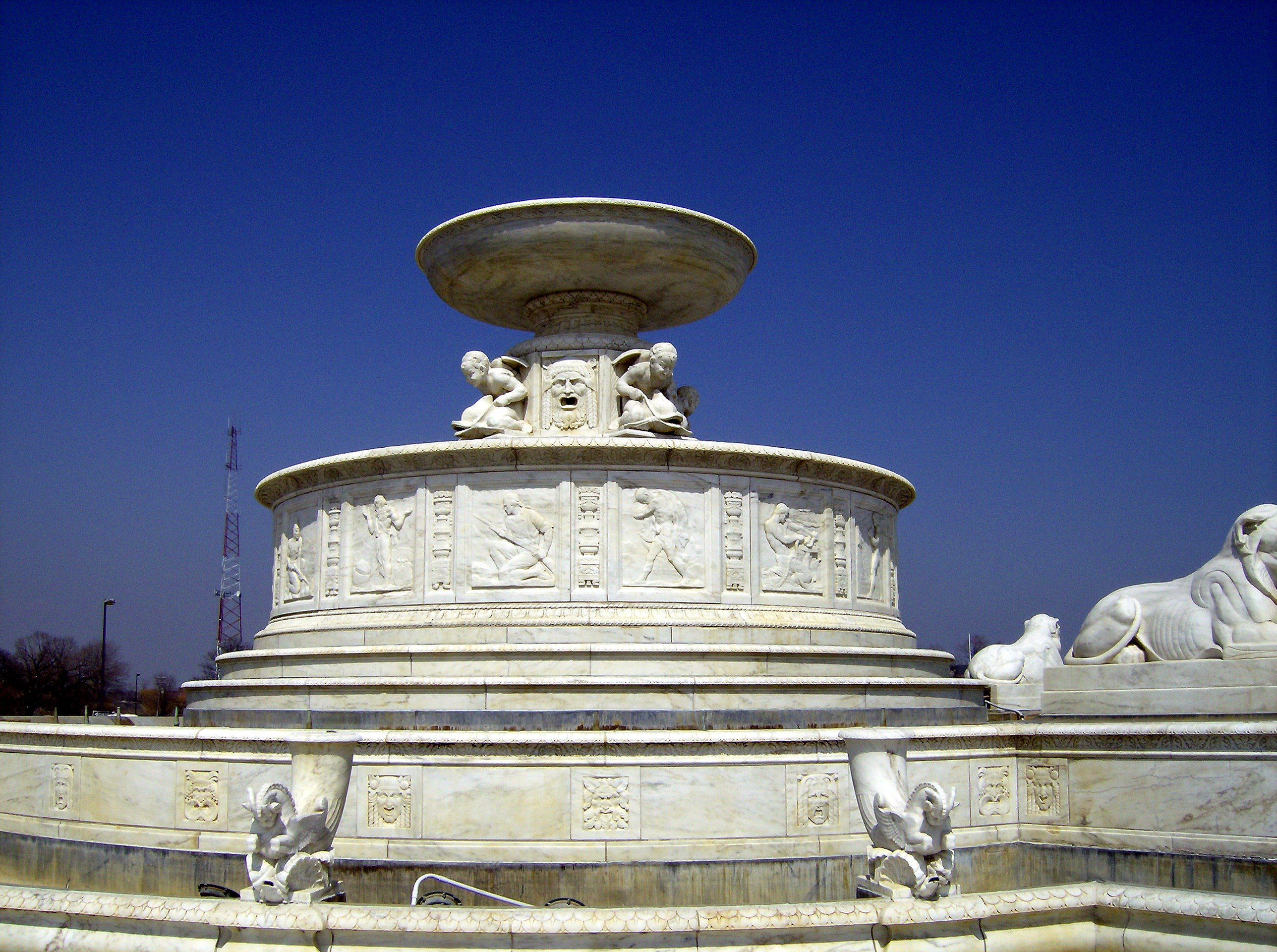 The James Scott Memorial Fountain in Belle Isle Park, Detroit, Michigan, United States.